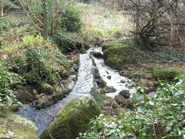 Tinner leat in Trevelloe woods. The leat is the best preserved feature of old tin streaming works that once ran down the stream in Trevelloe woods.